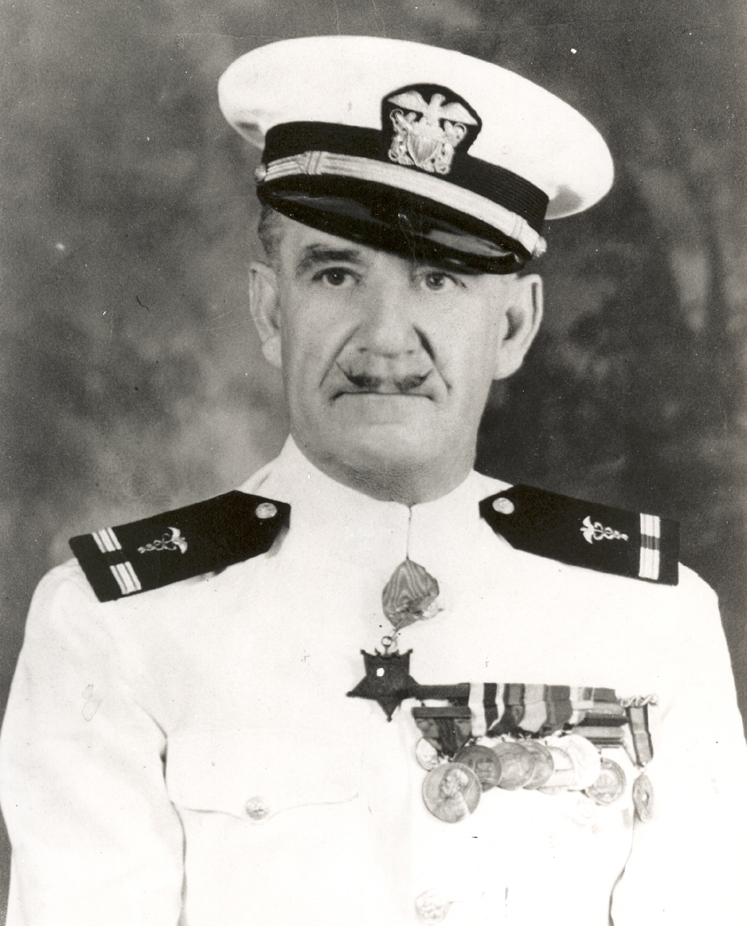 Robert Henry Stanley, United States Navy, received the Medal of Honor as a Hospital Apprentice during the Boxer Rebellion